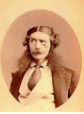 photograph of Edward Askew Sothern as Lord Dundreary